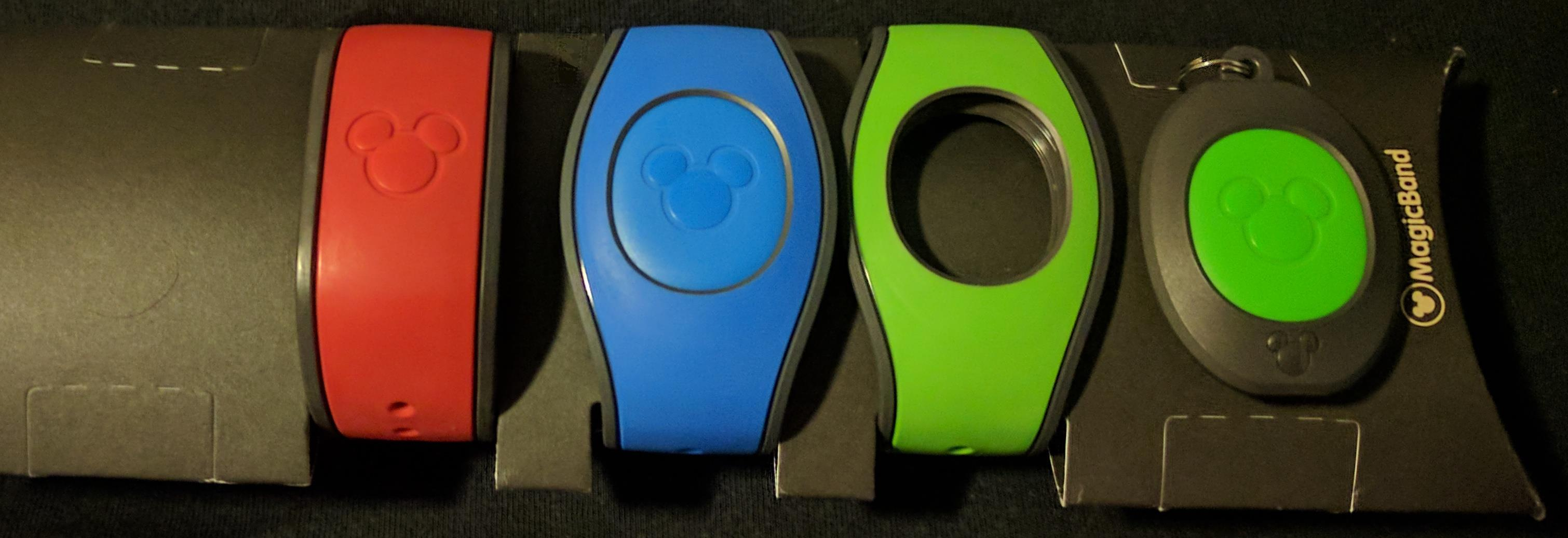 From left to right: Red (original) MagicBand, Blue MagicBand 2 with Icon, Green MagicBand 2 without Icon, MagicKeeper with Green Icon. Note: Name to the left of the Blue MagicBand 2 has been edited out for privacy purposes.